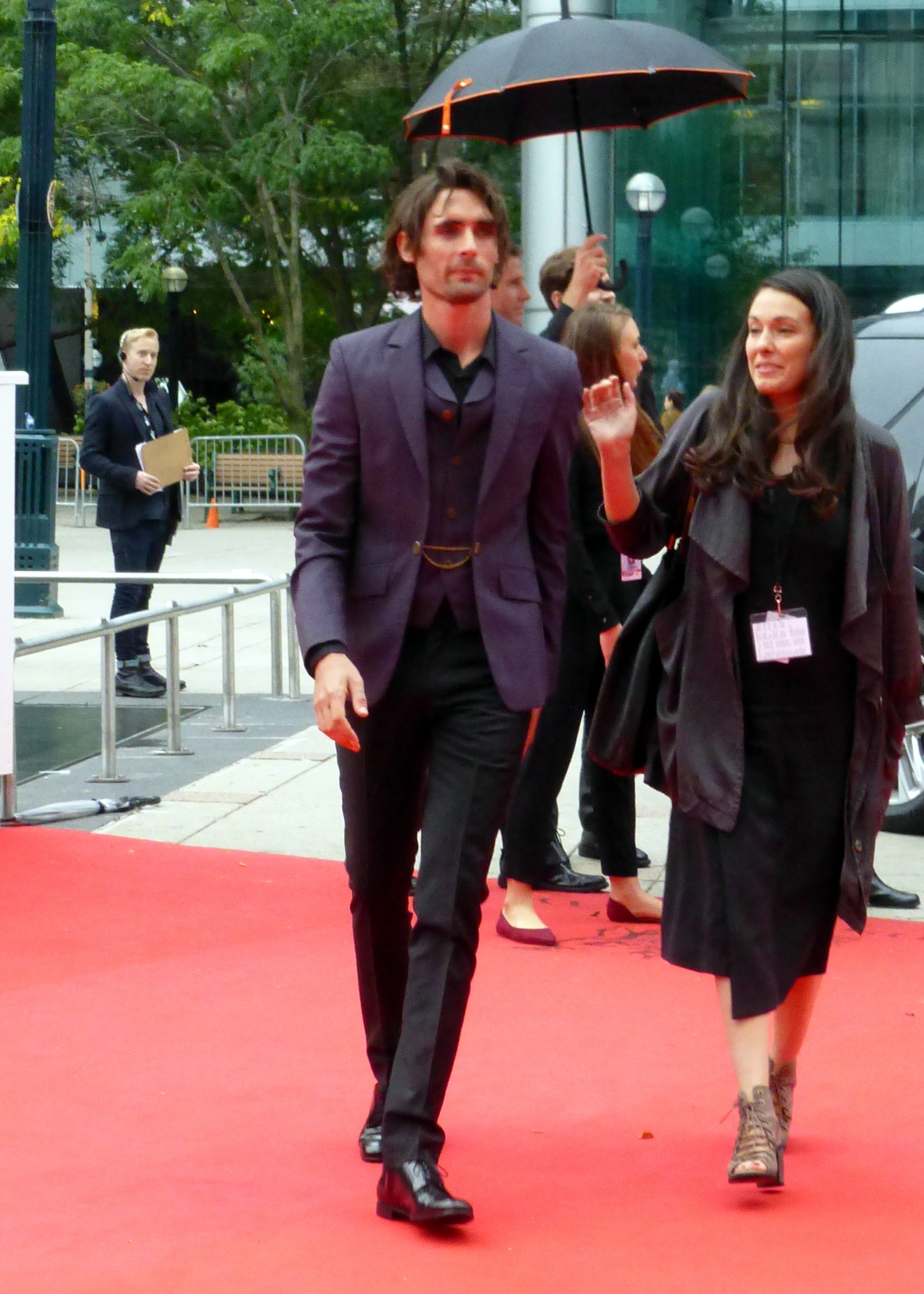 Tyson Ritter at the premiere of Miss You Already, 2015 Toronto Film Festival